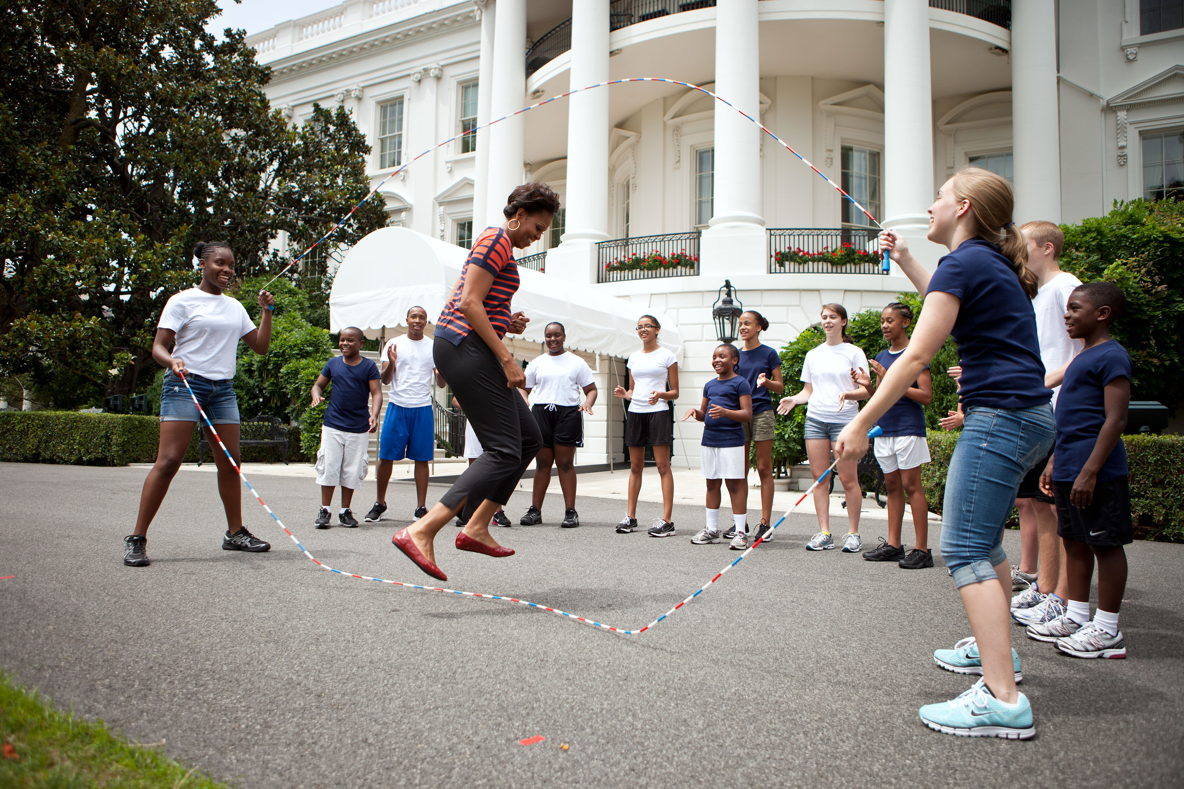 First Lady Michelle Obama and kids double-dutch jump rope during a taping for the Presidential Active Lifestyle Award (PALA) challenge and Nickelodeon's Worldwide Day of Play, on the South Lawn of the White House, July 15, 2011. (Official White House Photo by Chuck Kennedy)